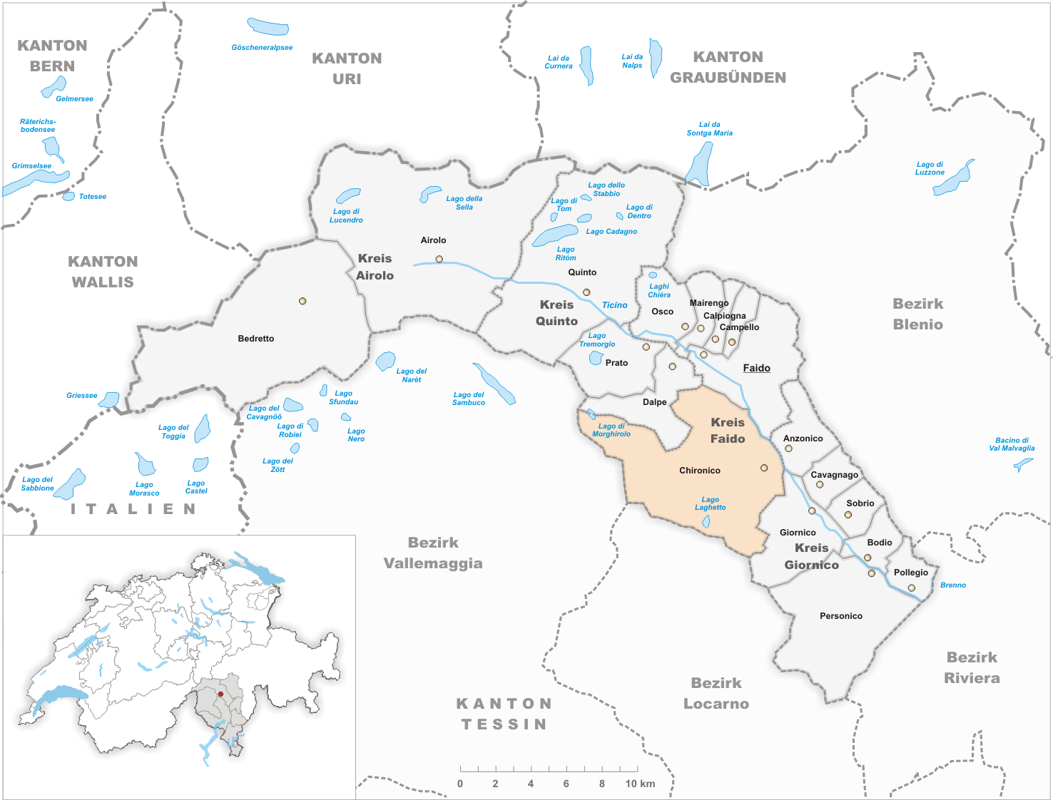 Municipality Chironico